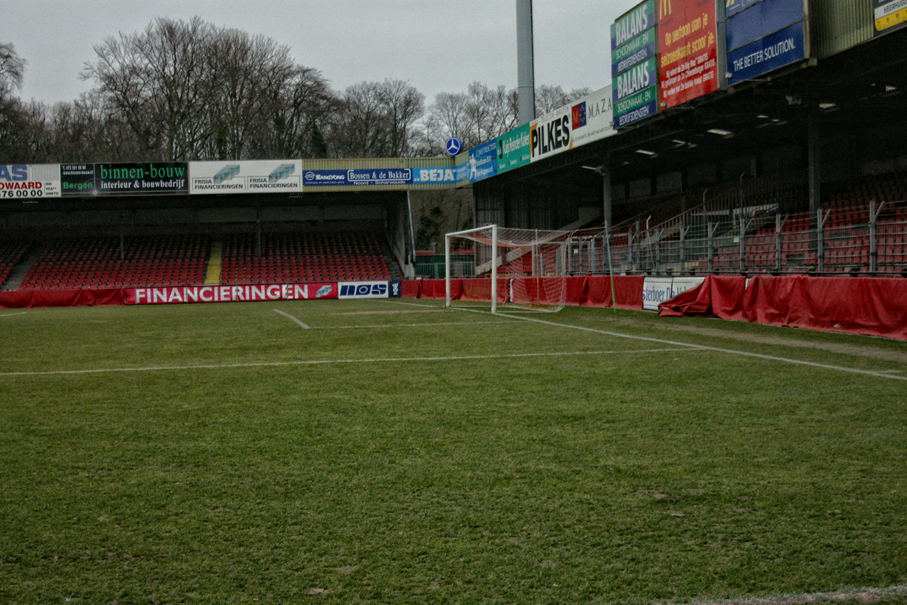 Alkmaarderhout Stadium in Alkmaar, the Netherlands